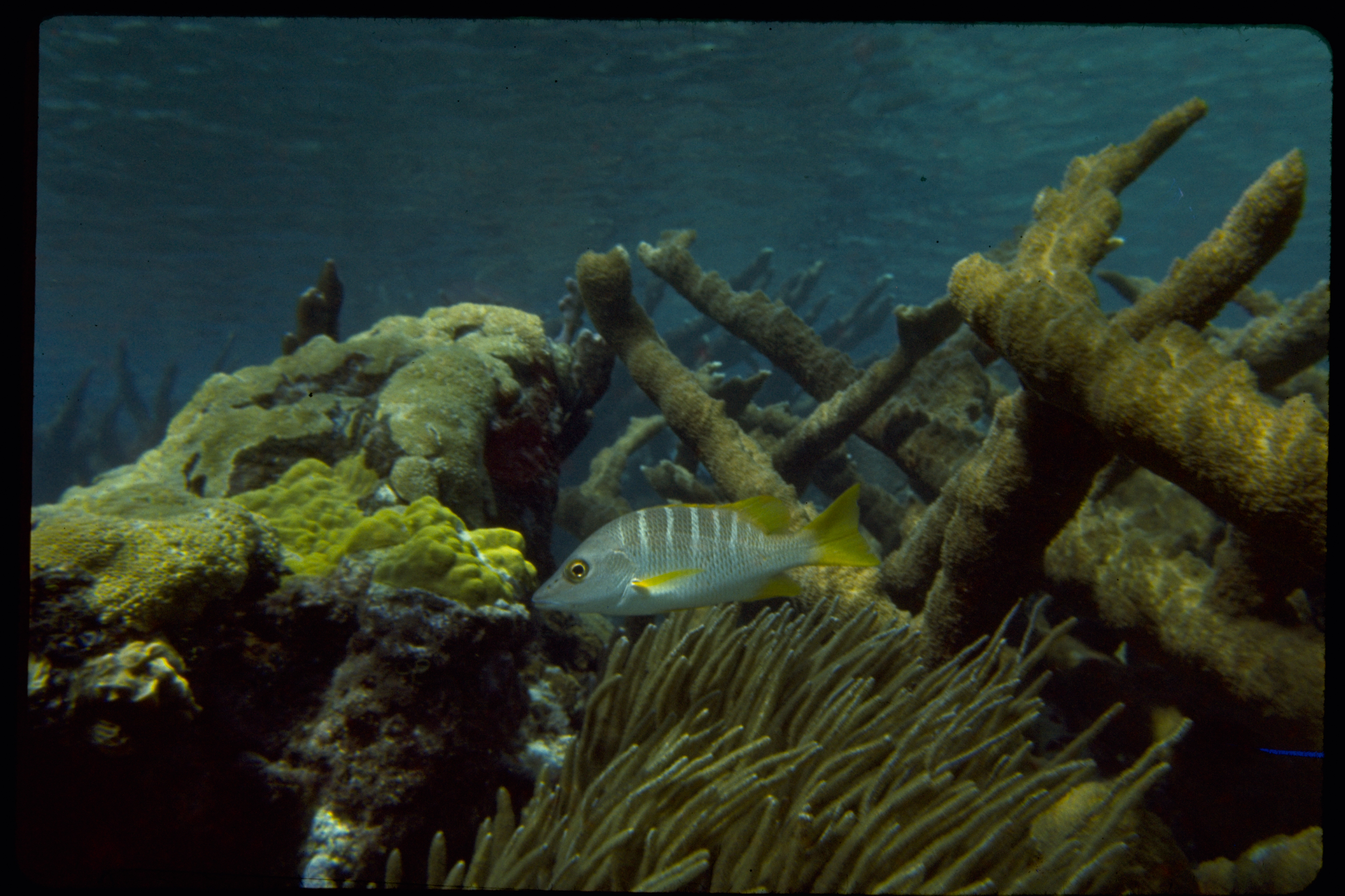 Virgin Islands National Park’s hills, valleys and beaches are breath-taking. However, within its 7,000 plus acres on the island of St. John is the complex history of civilizations - both free and enslaved - dating back more than a thousand years, all who utilized the land and the sea for survival.